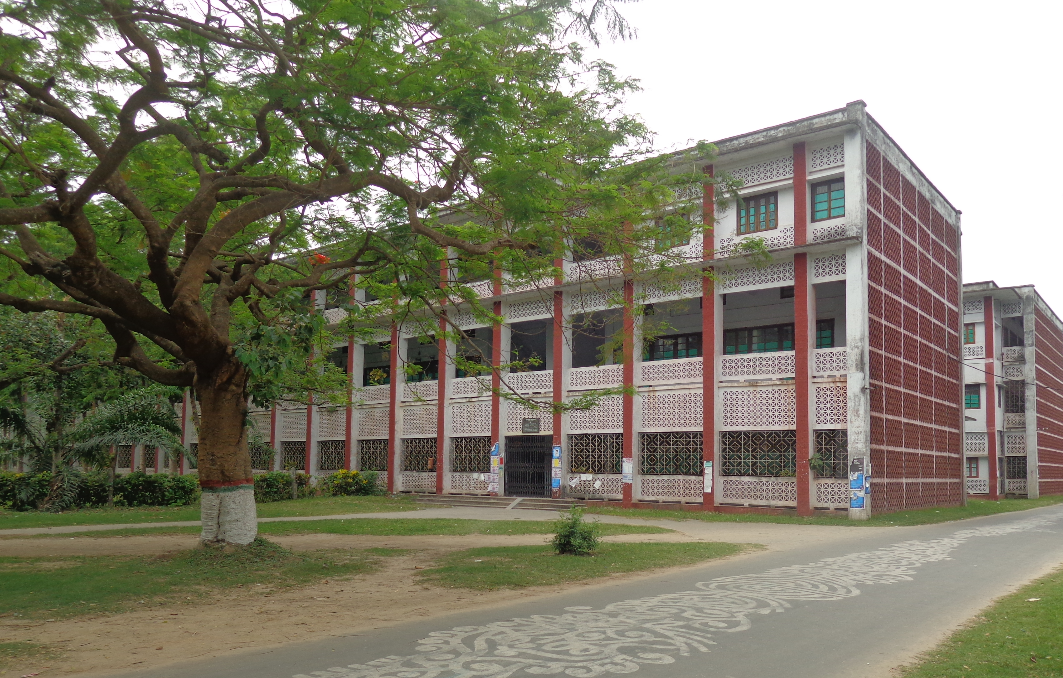 First Science Building, University of Rajshahi